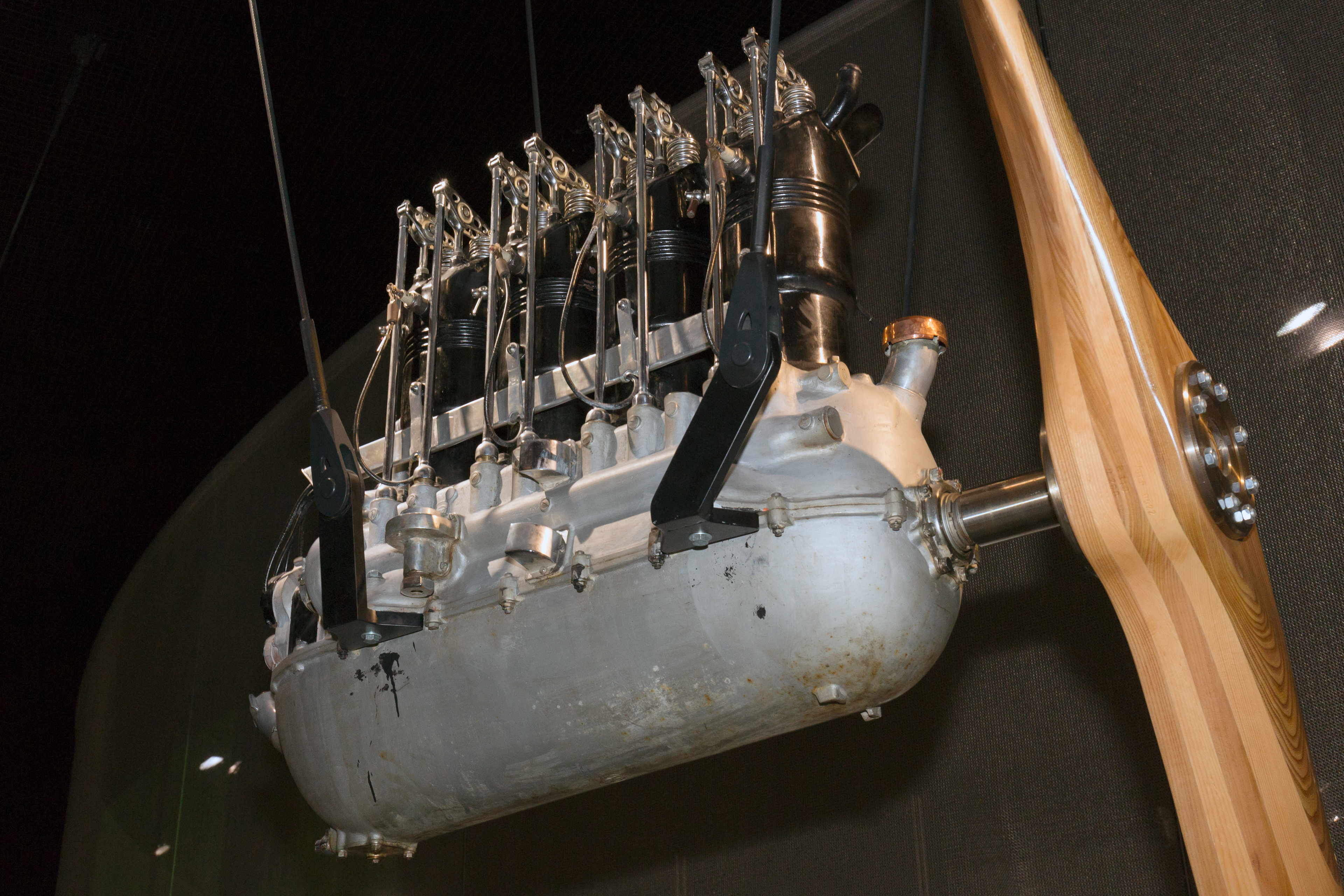 1912 Benz FX aircraft engine